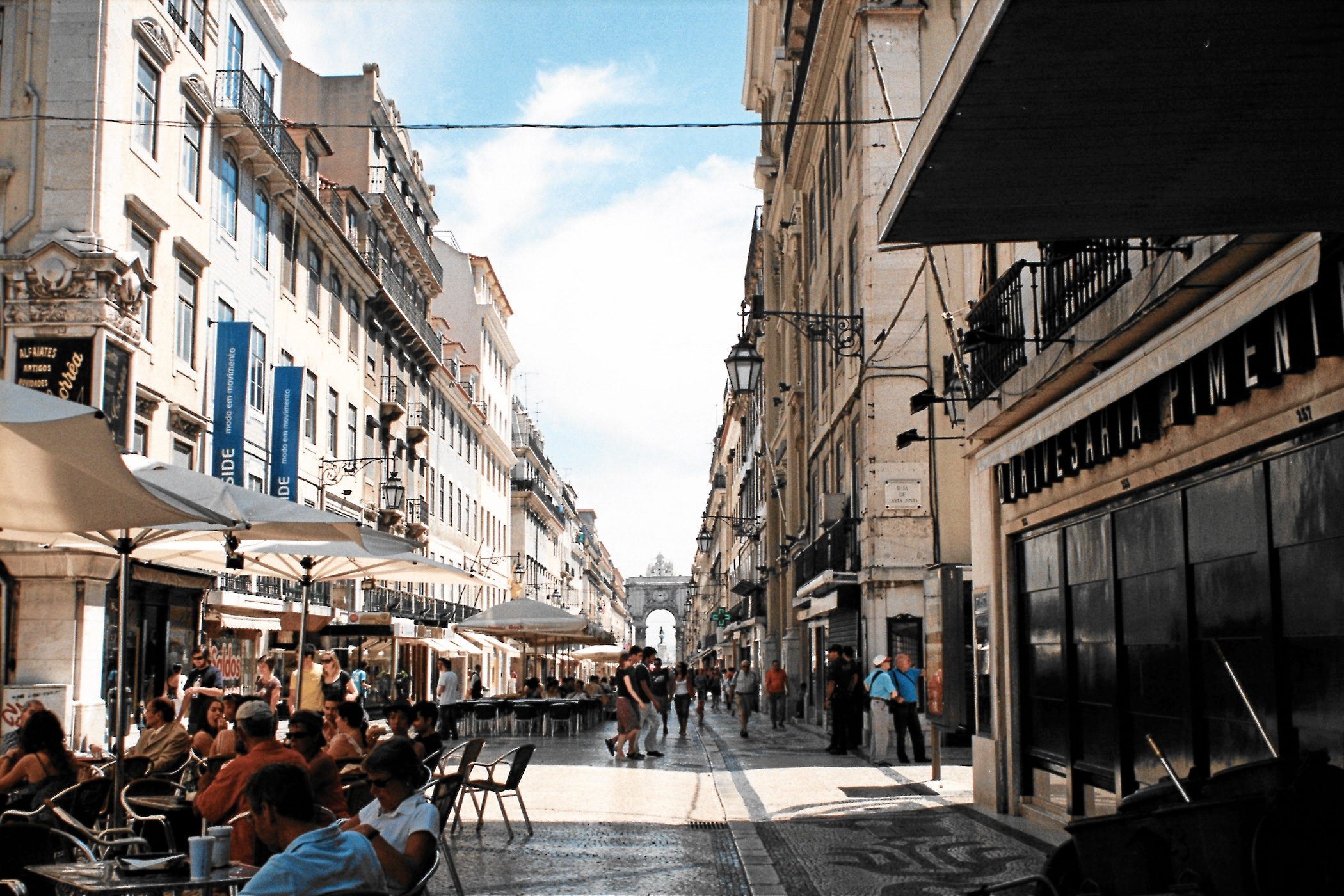 Rua Augusta, Lisbon Portugal